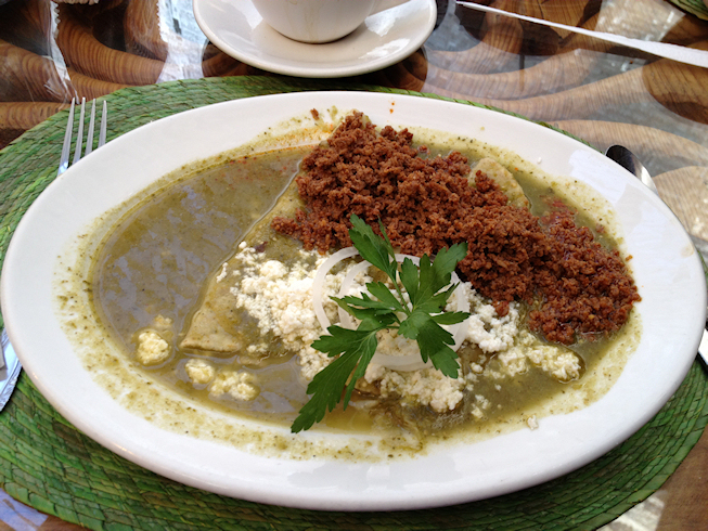 Tortilla Enchilada with Tlaxiaco Chorizo, in Tlaxiaco, Oaxaca, Mexico